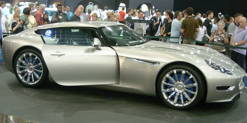 Side view of the Lightning GT at the British Motor Show in July 2008.